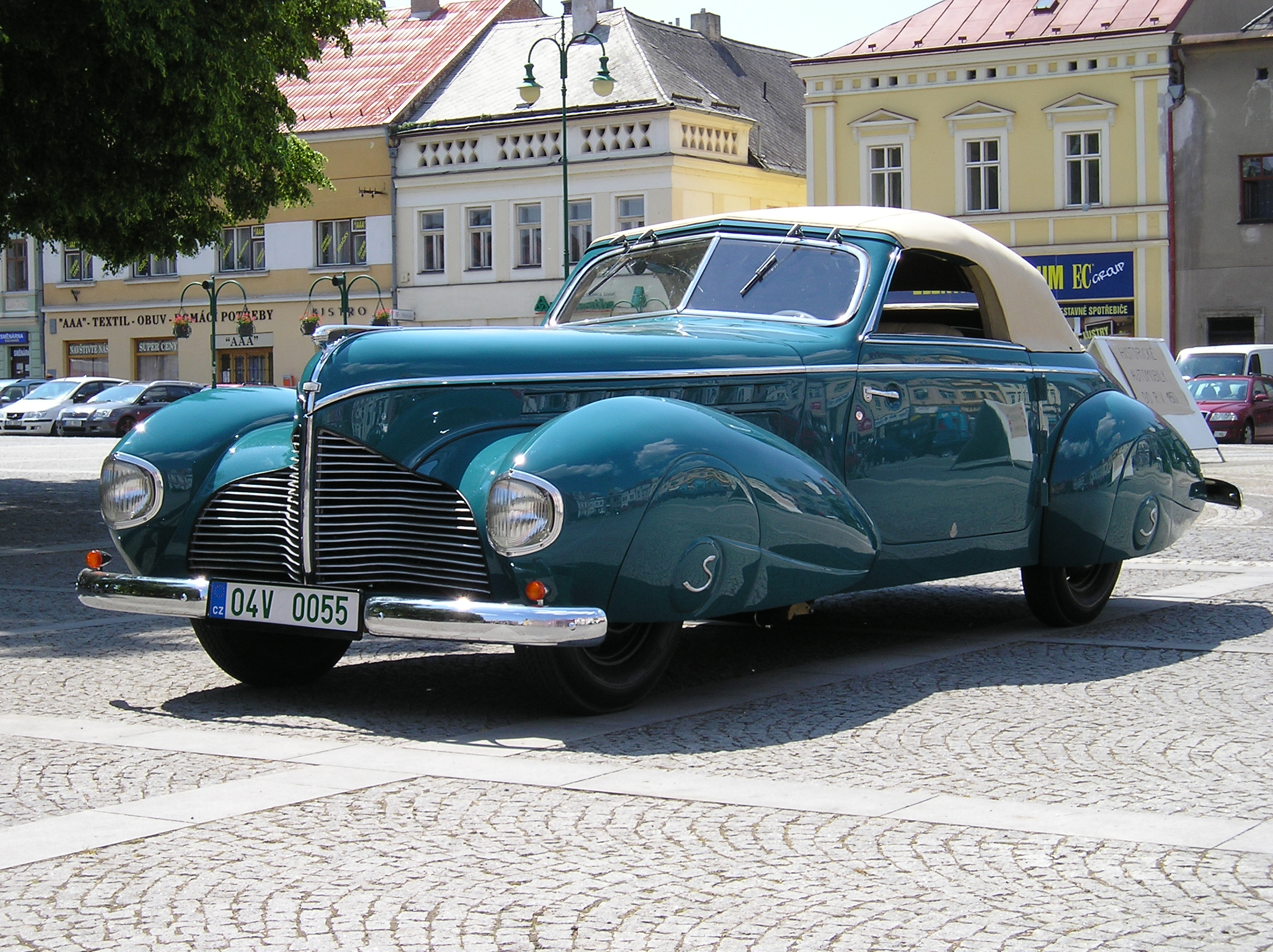 Aero 50 Dynamik, car with Sodomka bodywork on square in Vysoké Mýto during festival Sodomkovo Vysoké Mýto 2011